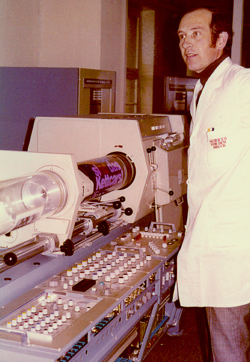 Drum Scanner Chromagraph DC 300 ER of Rudolf Hell